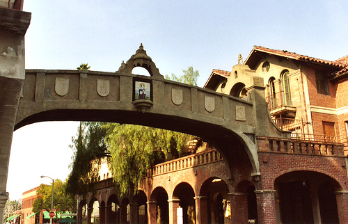 Skybridge at the Mission Inn, Riverside, California, USA